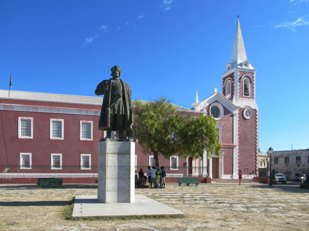 The Museu Da Ilha De Mocambique is housed in the Palácio de São Paulo (1610), a former Jesuit college that later served as the Portuguese governor's residence. A statue of Vasco da Gama who visited the island in 1498 stands before the building.